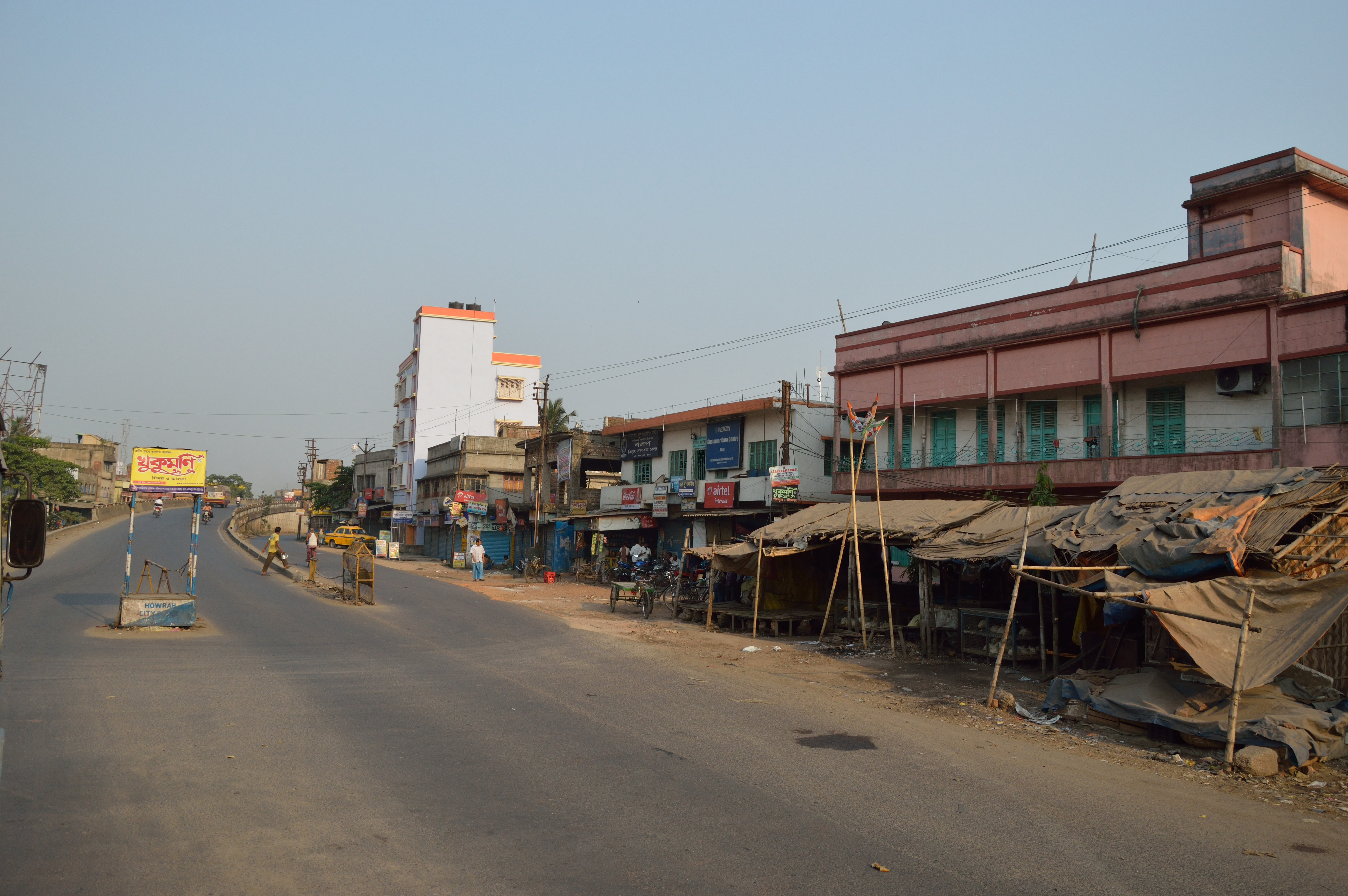 Photographed in Howrah, West Bengal, India.